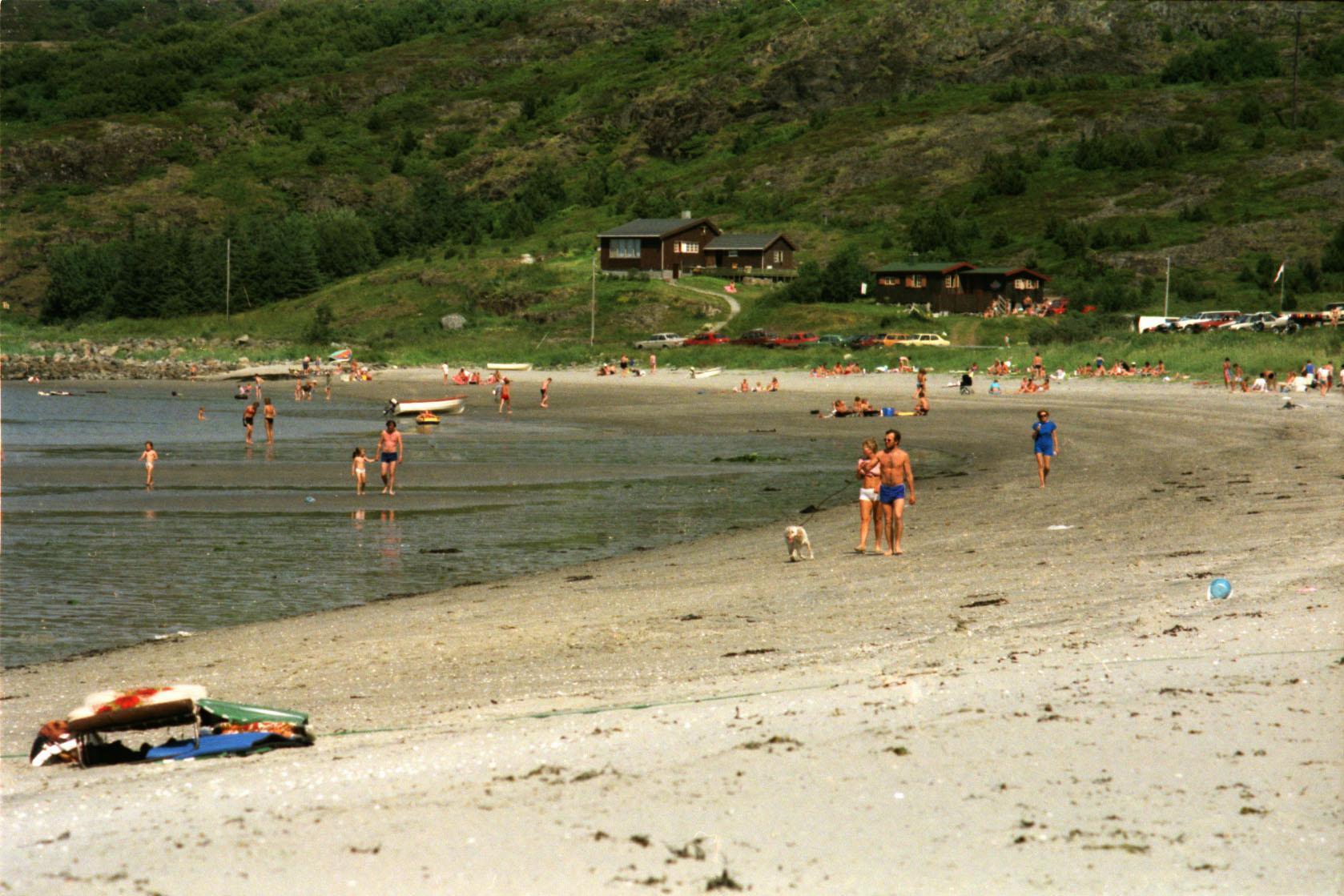 Hosensand in Åfjord